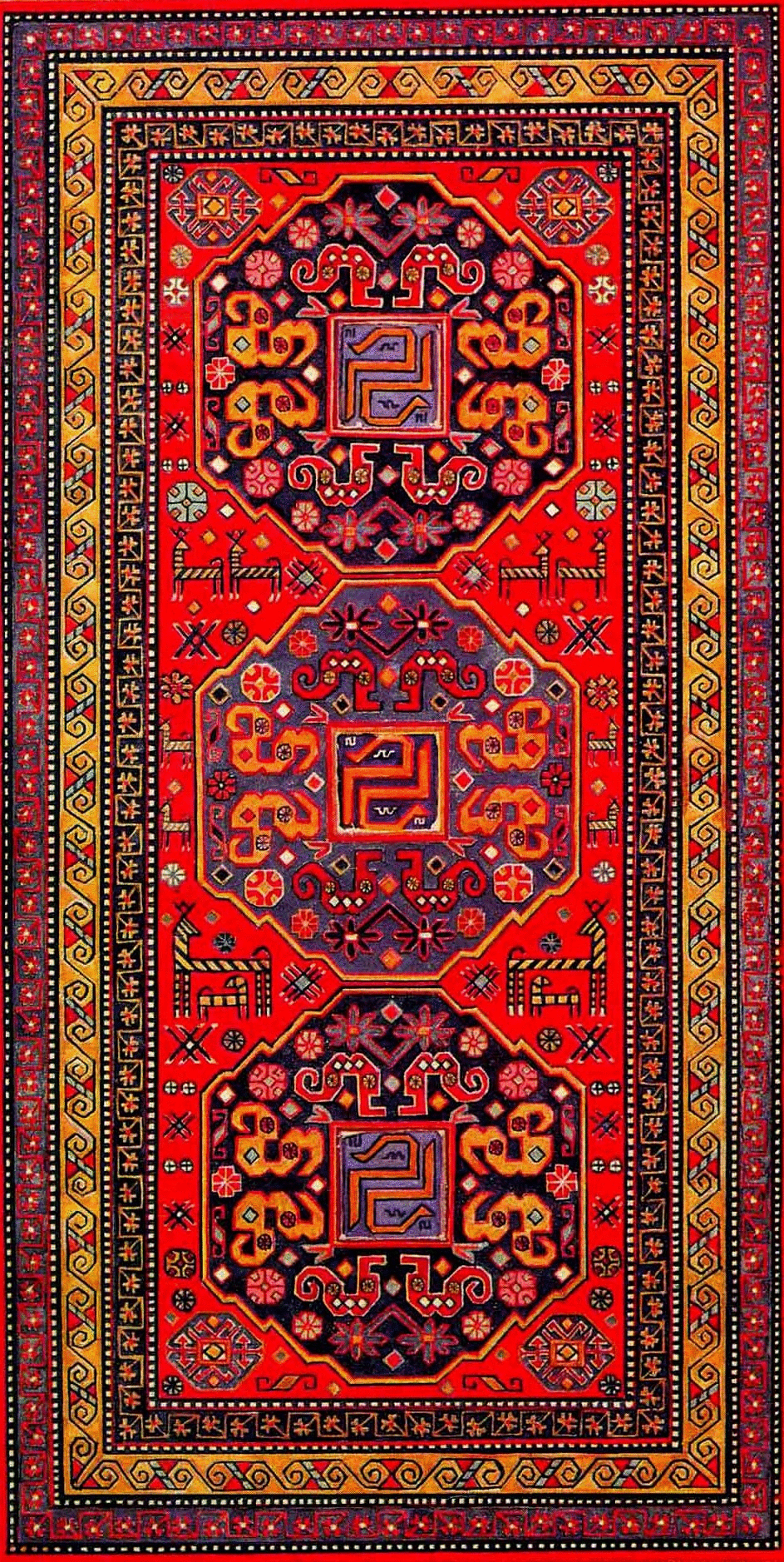 "Malibeyli" Carpet. Garabakh group.